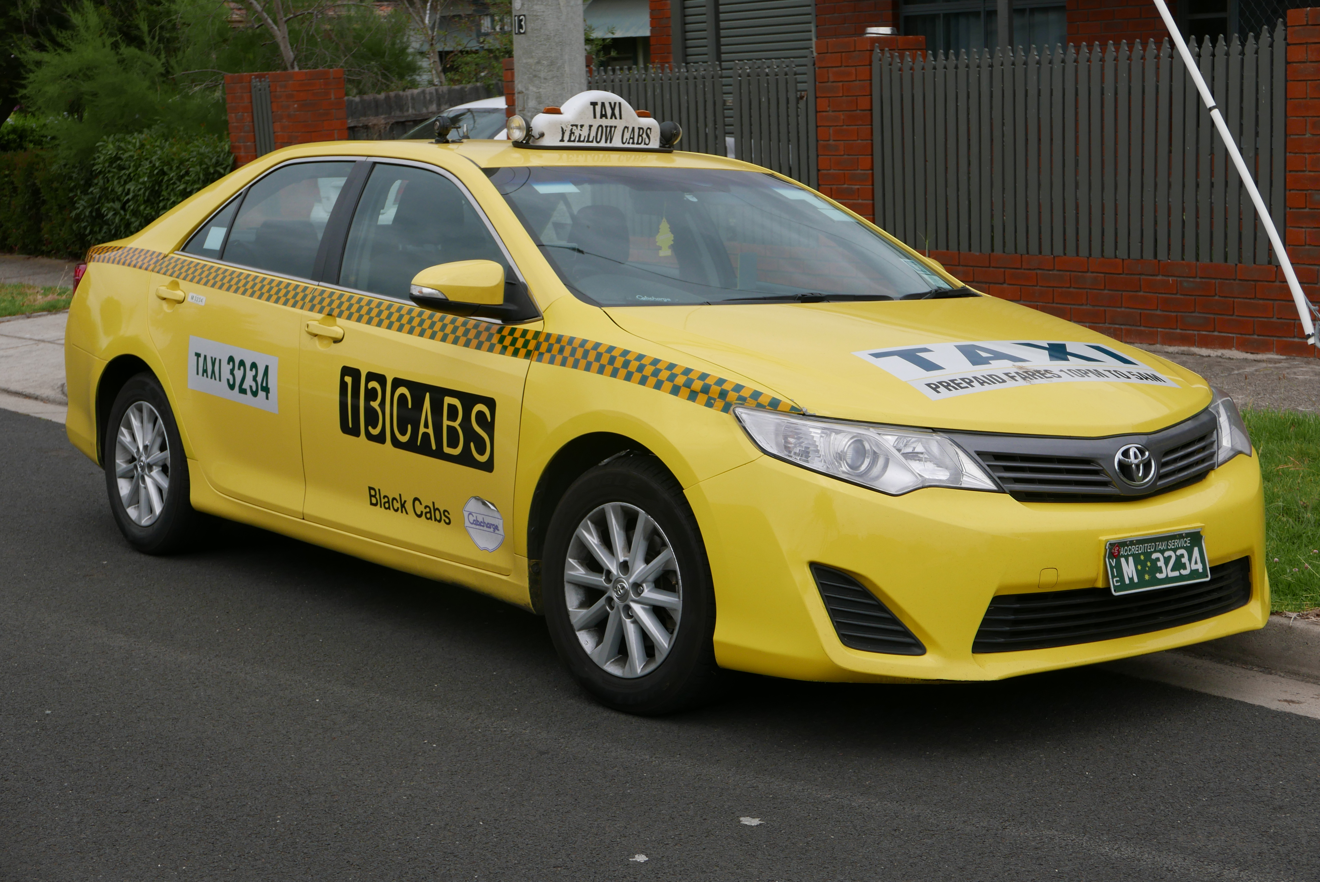 2012 Toyota Camry (ASV50R) Altise sedan, Black Cabs taxi. Photographed in Pascoe Vale, Victoria, Australia. Vehicle registration enquiry resultsJurisdictionVictoriaRegistrationM3234Chassis code6T1BF3FK60X009178Engine code2ARE445485Compliance date2012-04Year of manufacture2012